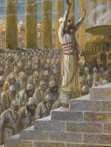 Solomon Dedicates the Temple at Jerusalem, c. 1896-1902, by James Jacques Joseph Tissot (French, 1836-1902) or followers, gouache on board, 10 5/16 x 7 1/2 in. (26.2 x 19.2 cm), at the Jewish Museum, New York